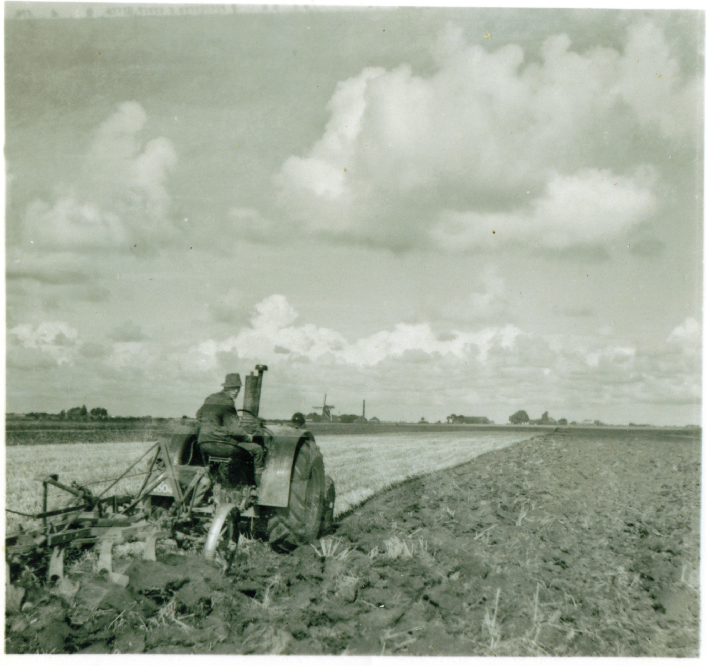 Machanised Plowing, Nieuw-Scheemda, NL, about 1955